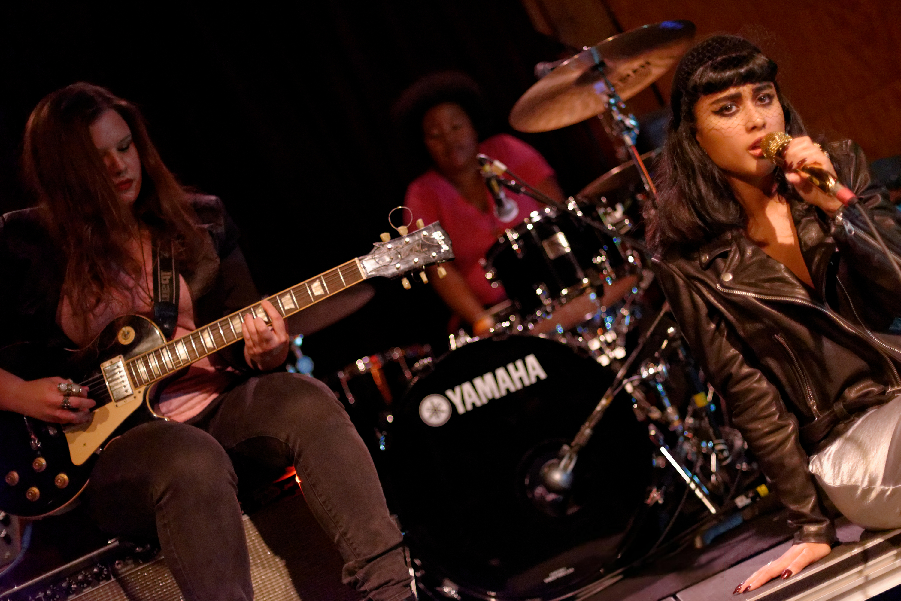 Natalia Kills performing live at the Bootleg Bar in Los Angeles California on Sunday February 23rd, 2014